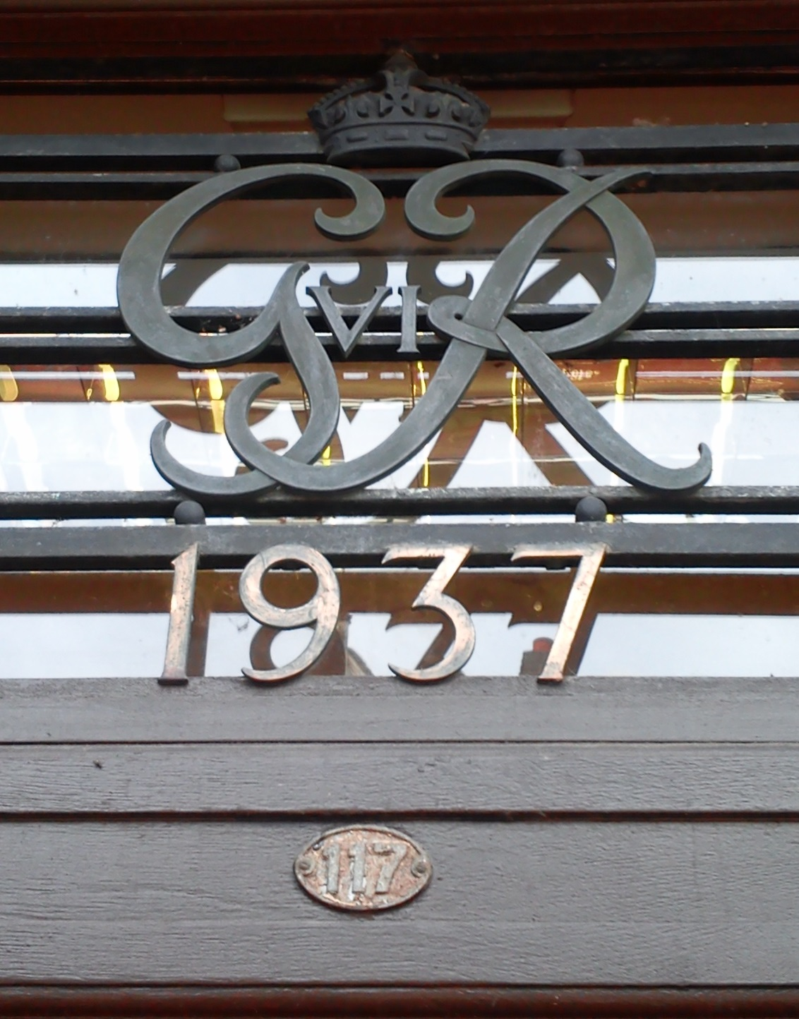 wrought metal artwork commemorating the coronation of King George VI in 1937 above the entrance to Bromsgrove's high street post office